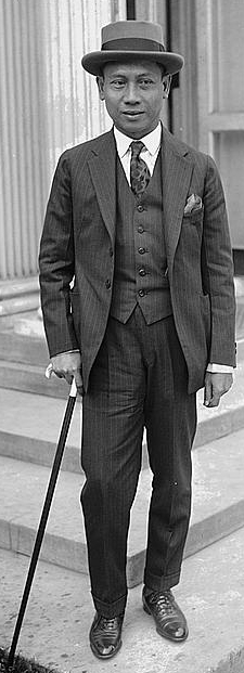 Filipino politician Pedro Guevara (1879-1938).